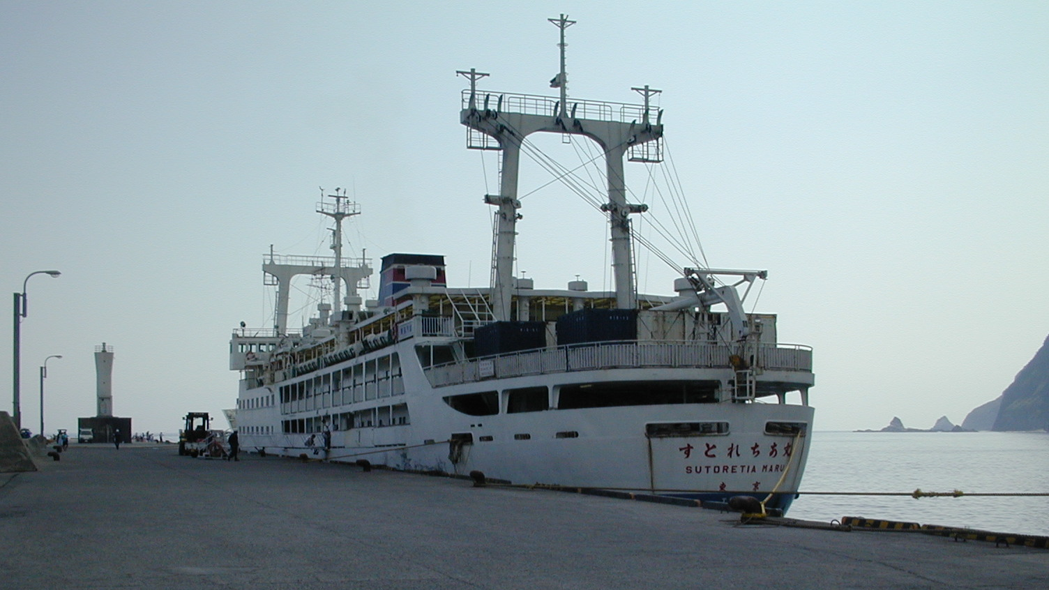 The SUTORETIA MARU, IMO number: 7727762, later renamed JOSHU MARU